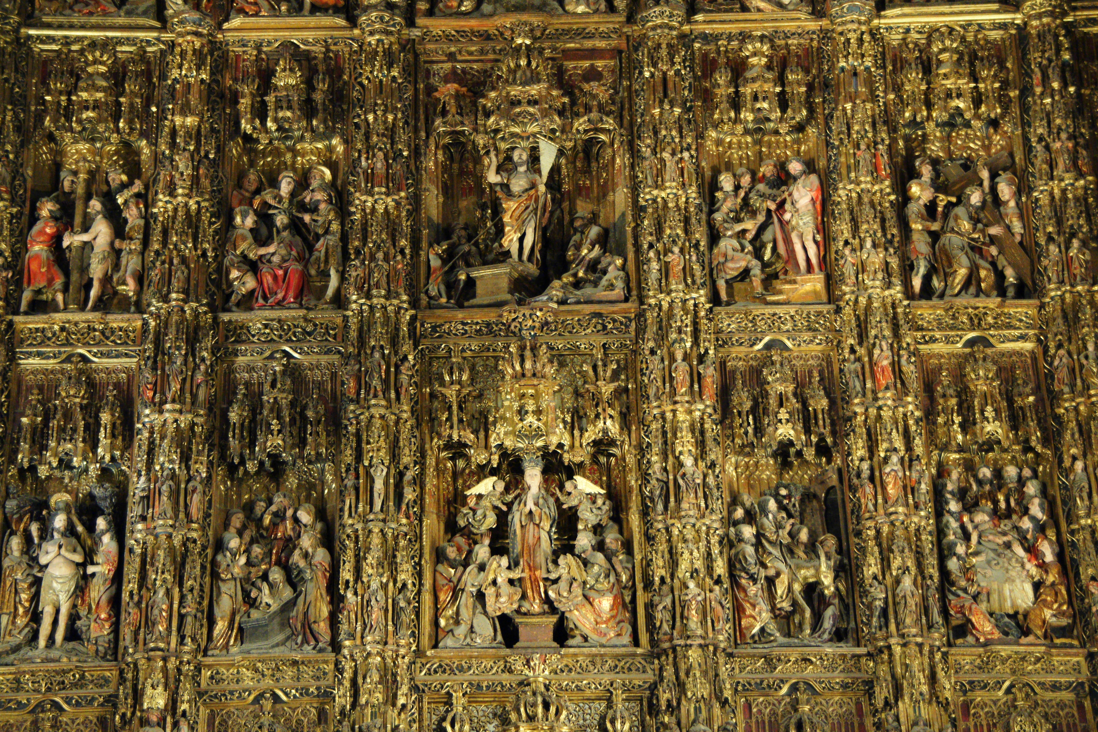 Largest altar piece in the world